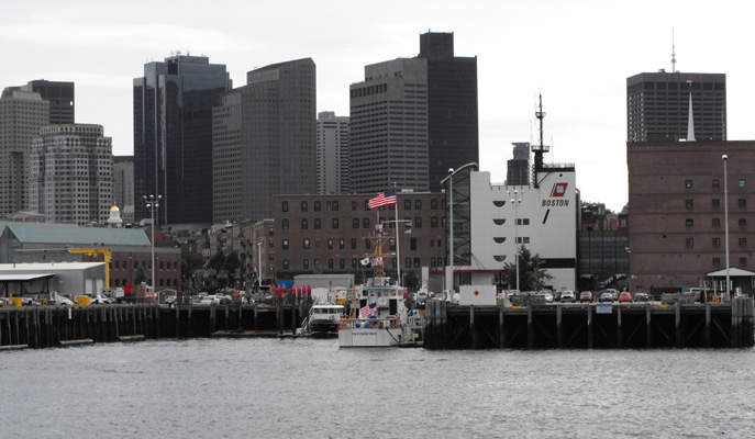 Picture taken from Charlestown across Boston Harbor looking at the Coast Guard Station